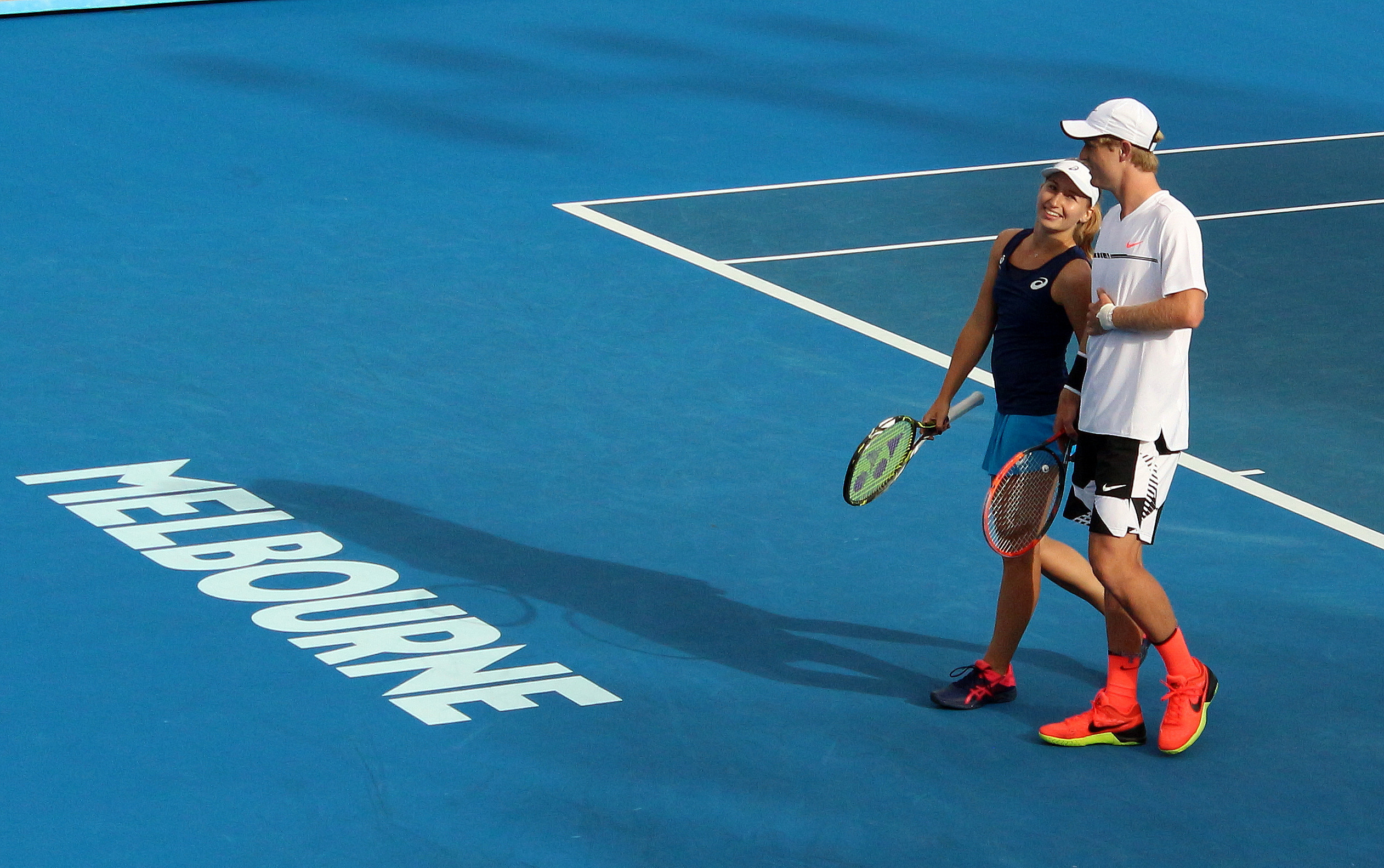 Daria Gavrilova and Luke Saville at the Australian_Open_2017